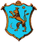 Coat of arms of Cumania